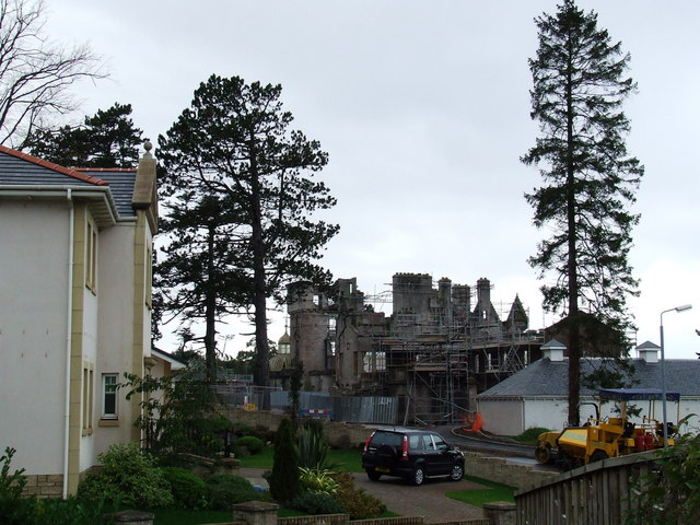 Broadfield Hospital Broadfield psychiatric hospital closed in the 1990s and work to convert it to luxury flats commenced in 2001. Arsonists all but destroyed the building shortly afterwards, but the developers plan to restore it.